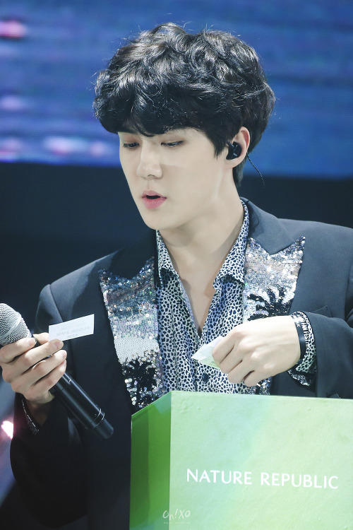 Oh Se-hun at Nature fanmeeting on February 3, 2018.